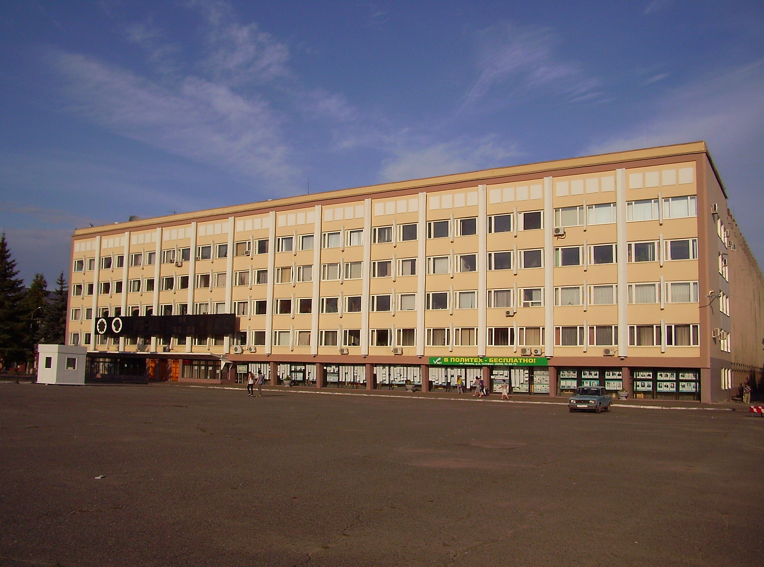 The main building of Mari state technical university on Lenin's square